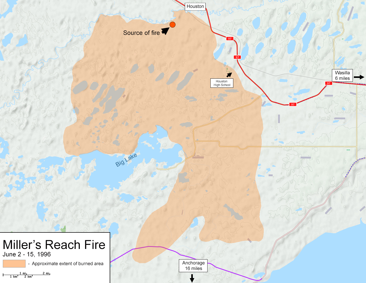 Map showing the region in which the Miller's Reach Fire occurred and the extent of the burned out area. This map may be incomplete, and may contain errors. Don't rely solely on it for navigation.